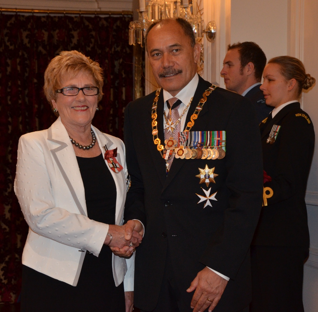 Dame Adrienne Stewart, of Christchurch, after her investiture as a Dame Companion of the New Zealand Order of Merit, for services to the arts and business, by the governor-general, Sir Jerry Mateparae, on 21 May 2015.